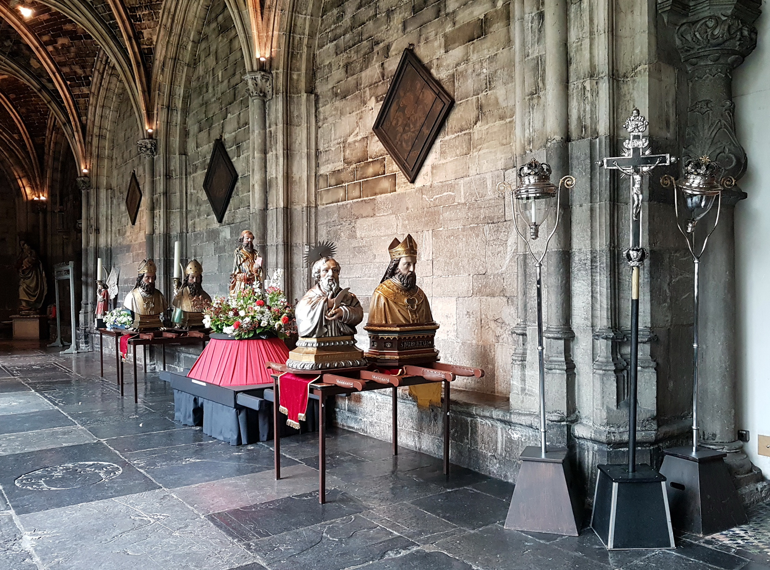 Display of reliquaries in the cloisters of the Basilica of Our Lady in Maastricht, Netherlands. The objects from the church's treasury are shown here in preparation of the veneration of the relics in the church on Saturday 2 June. This is part of the Heiligdomsvaart ("relics pilgrimage") celebrations, a religious and historic event that takes place once in seven years and dates back to the Middle Ages. The reliquary busts shown here contain relics of the holy bishops of Maastricht and other saints.